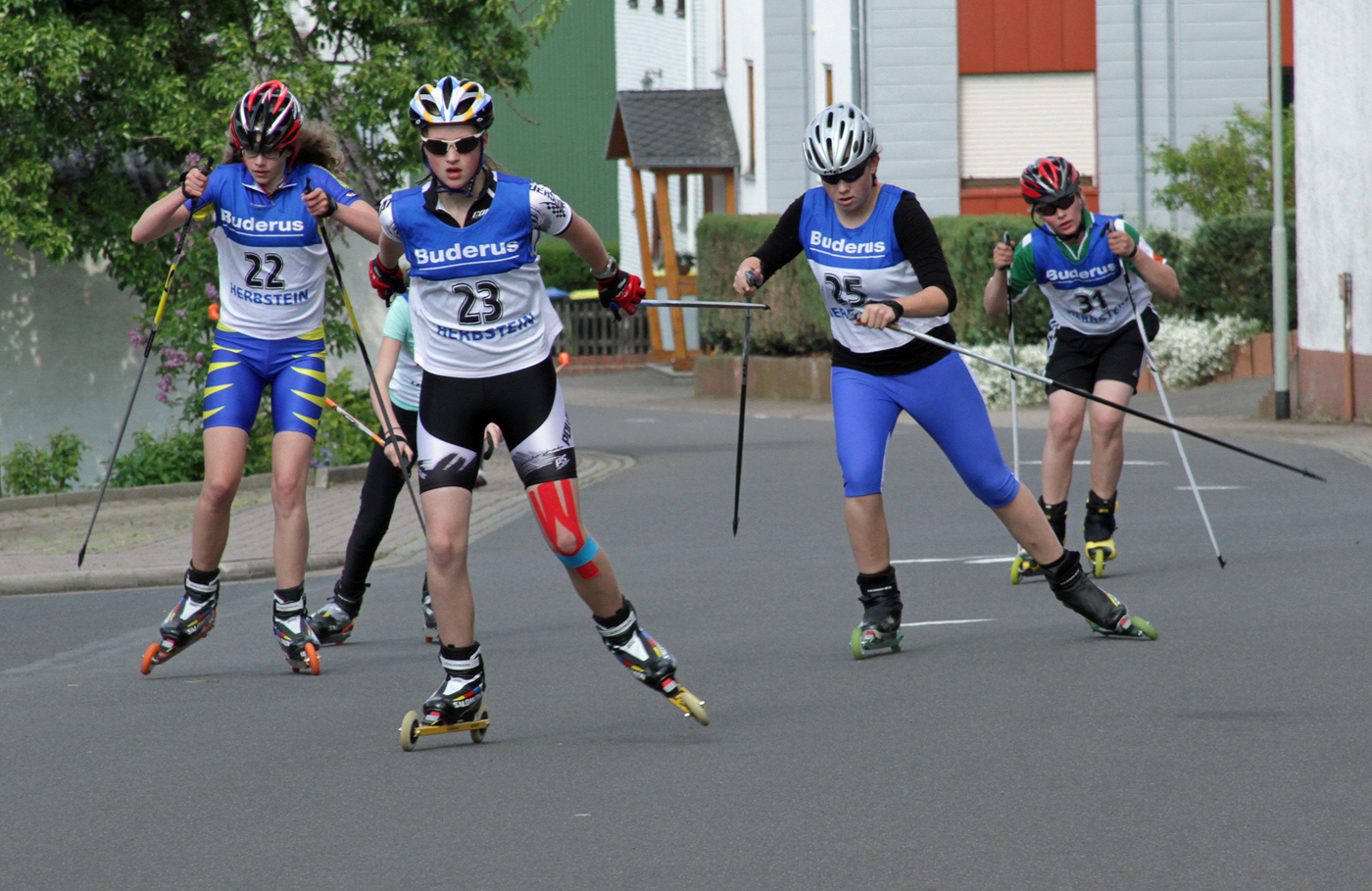 Rollski-DM in Lanzenhain - Schülerklasse